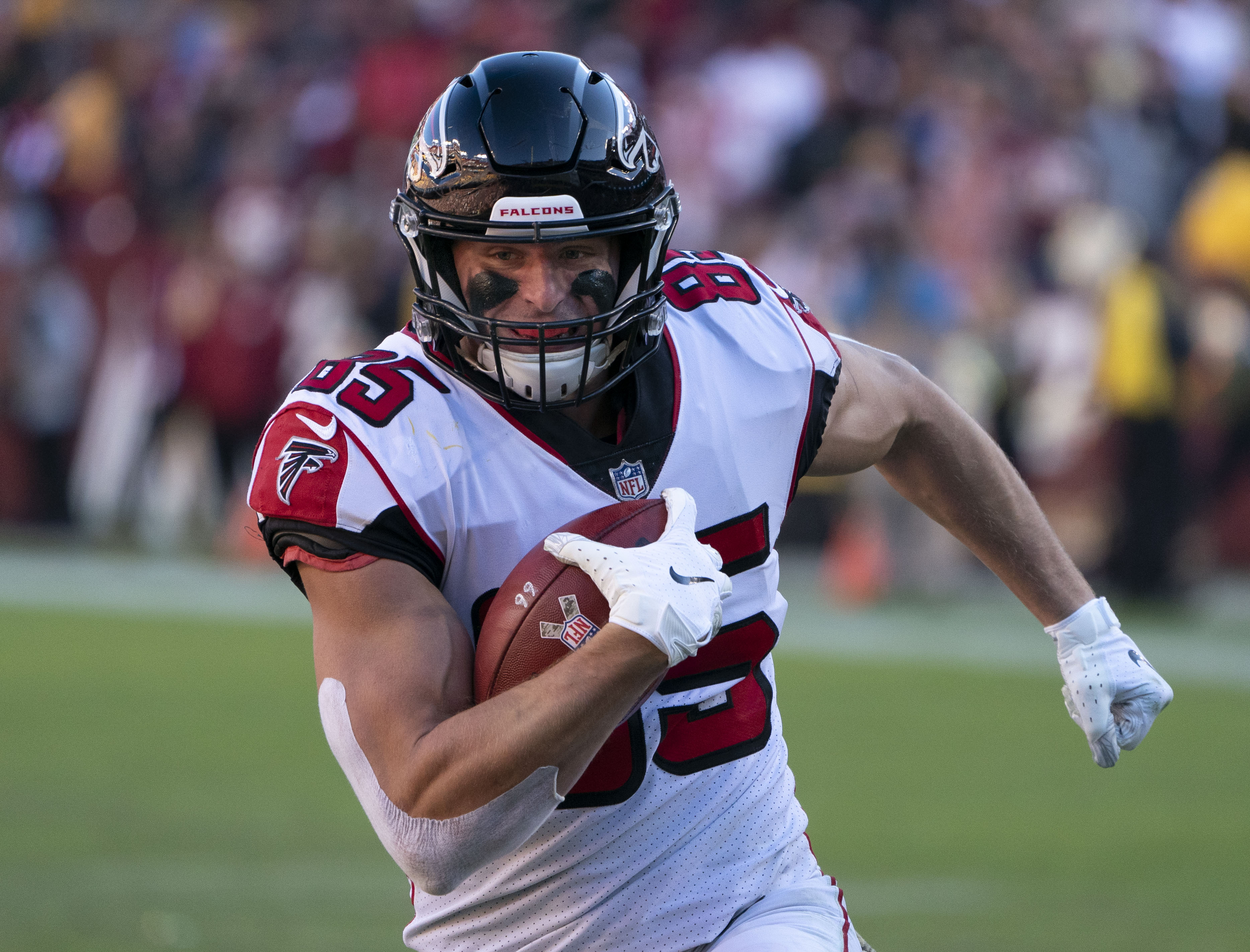 Eric Saubert of the Atlanta Falcons carries the ball at FedEx Field in 2018.